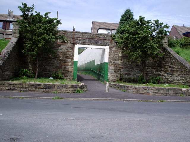 Subway of Shawforth railway station, Shawforth, Rossendale, Lancashire, England, UK.